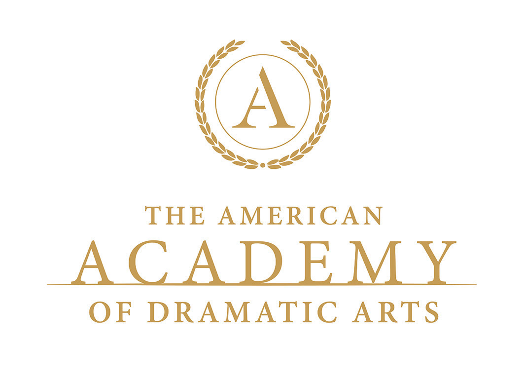 This is the official logo for The American Academy of Dramatic Arts